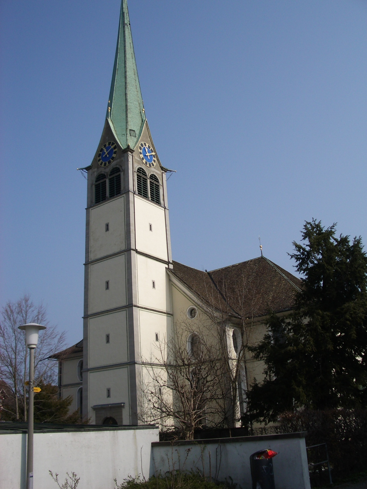 Wädenswil ZH, Switzerland